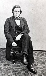 image of Joseph Rowntree (philanthropist) in 1862. York.